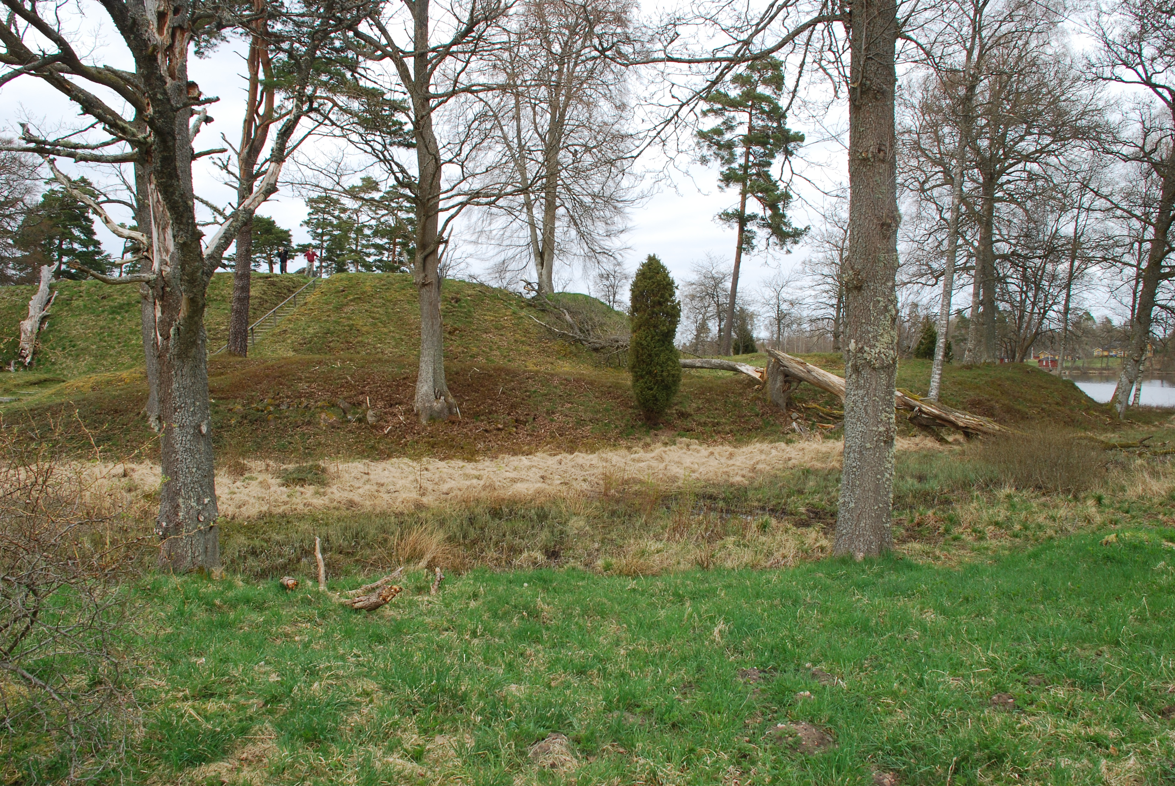 Remnants of the medieval castle Piksborg